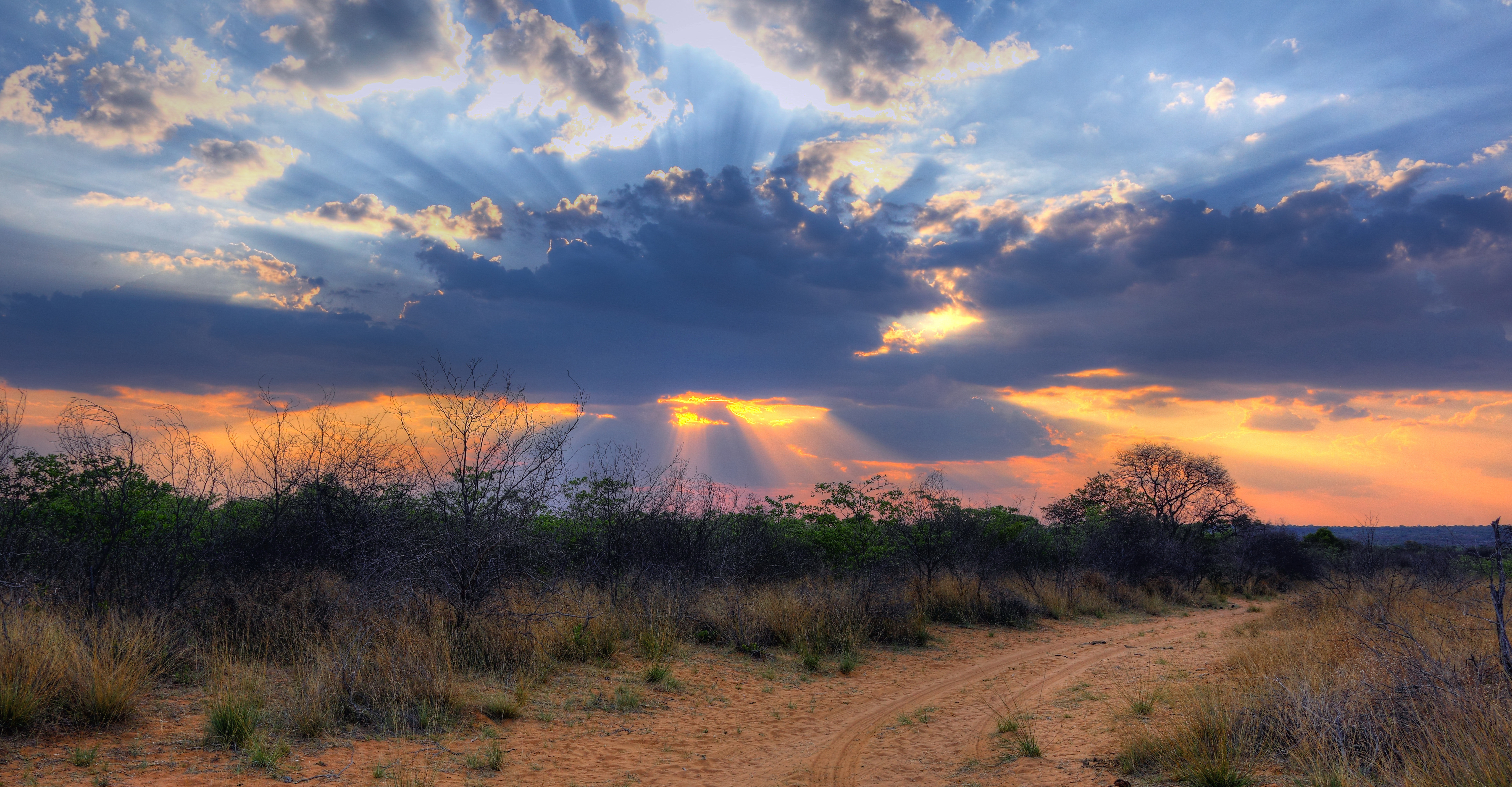 Crepuscular rays at sunset near Waterberg Plateau (Wabi Game Ranch) in Namibia